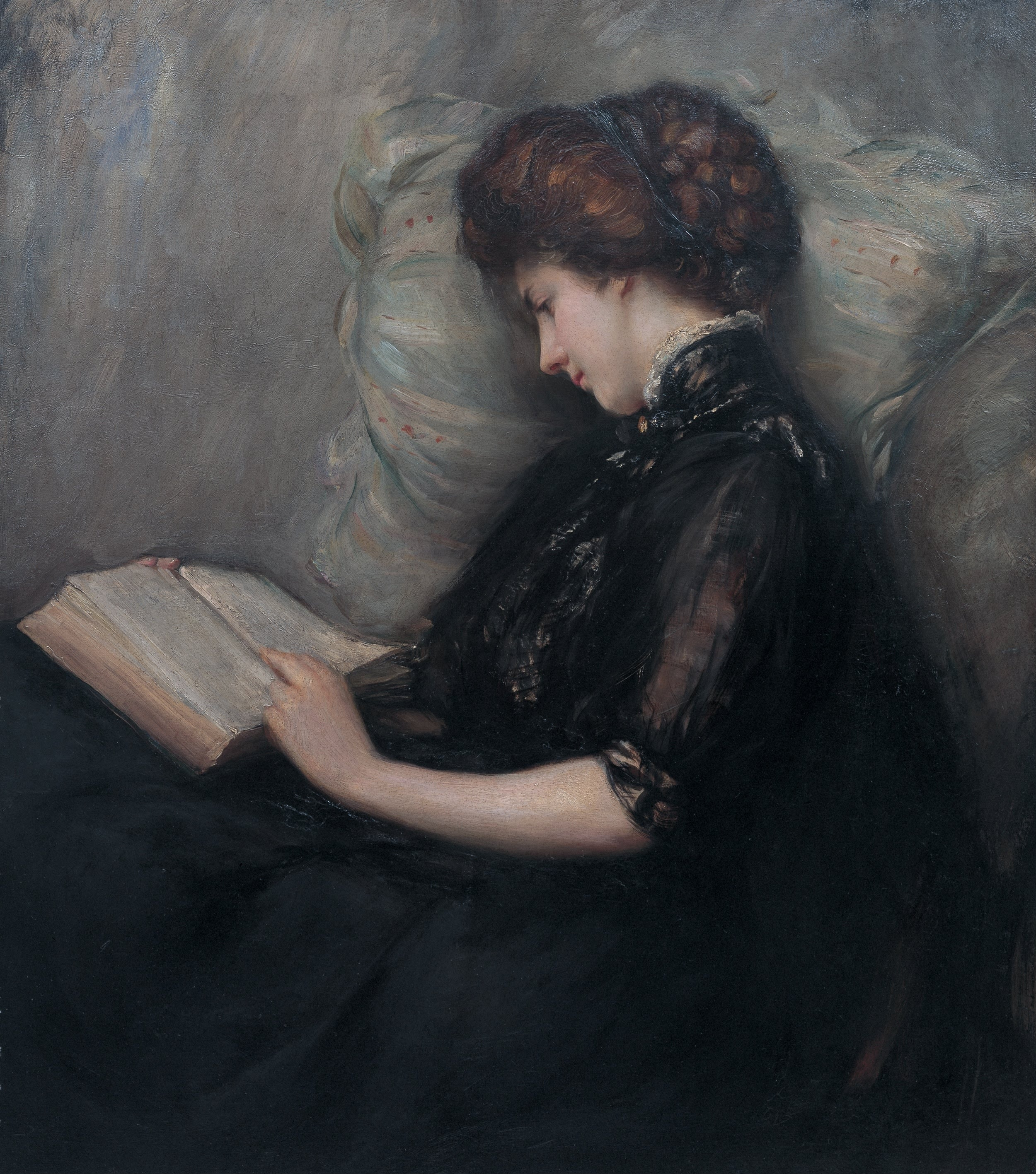 Lady Reading Poetry, by Ishikawa Kazunori, Shimane Art Museum, Matsue, Shimane, Japan